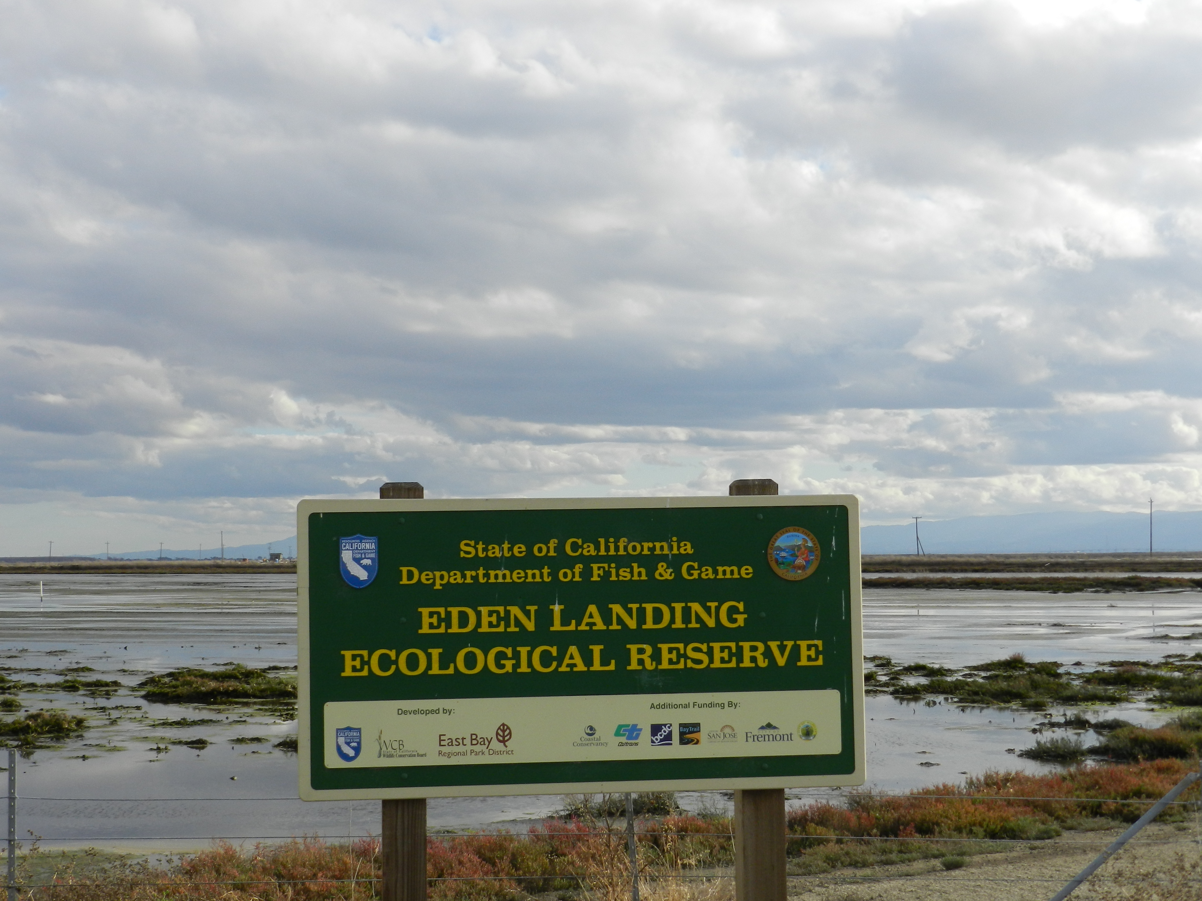 Eden Landing Ecological Reserve, adjacent to Highway 92, Hayward, San Francisco Bay Area